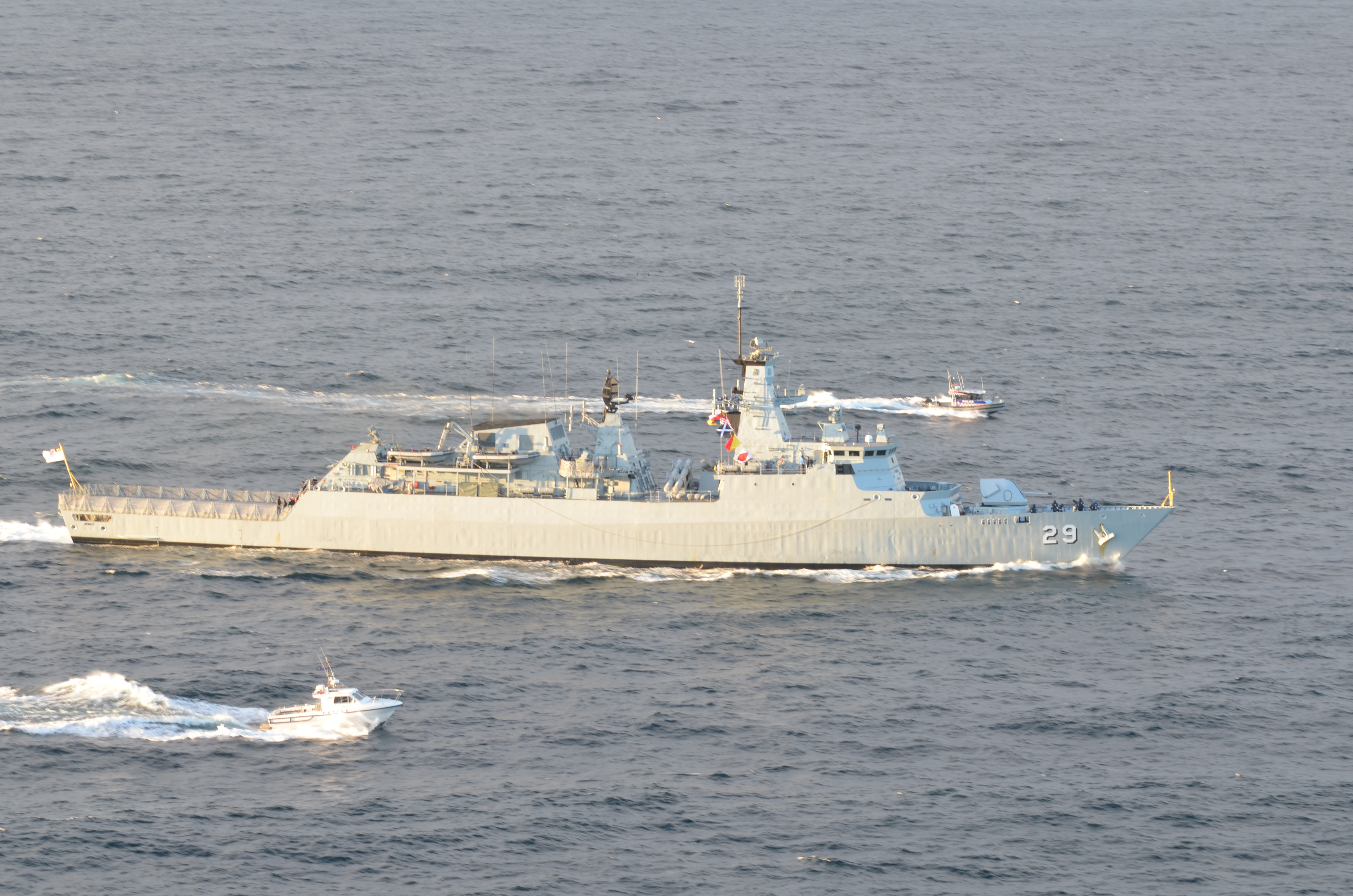 Photographs taken during day 2 of the Royal Australian Navy International Fleet Review 2013. The Malaysian frigate Jebat entering Sydney Harbour as part of the warship fleet.